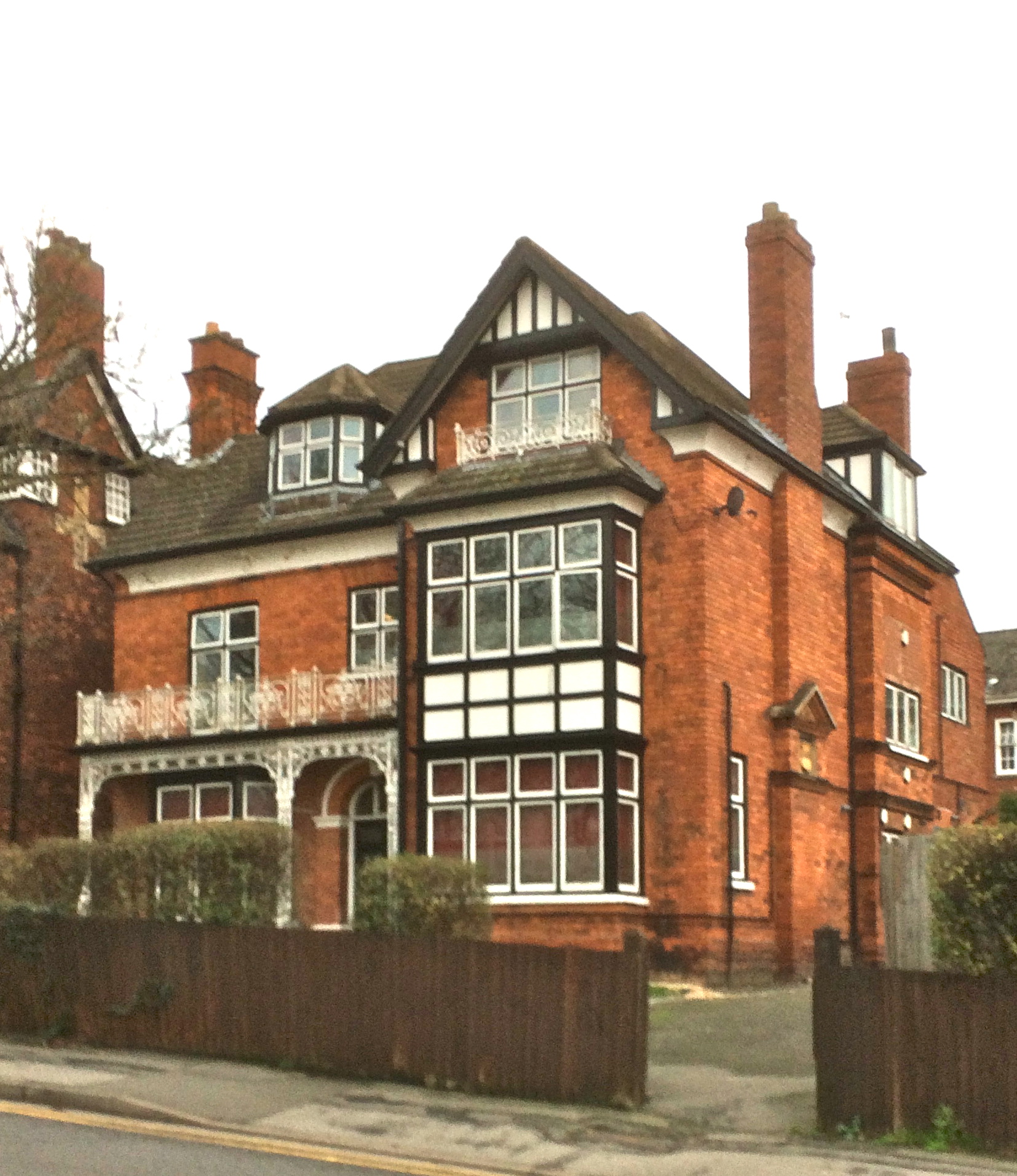 2-4 The Avenue Lincoln by Drury and Mortimer